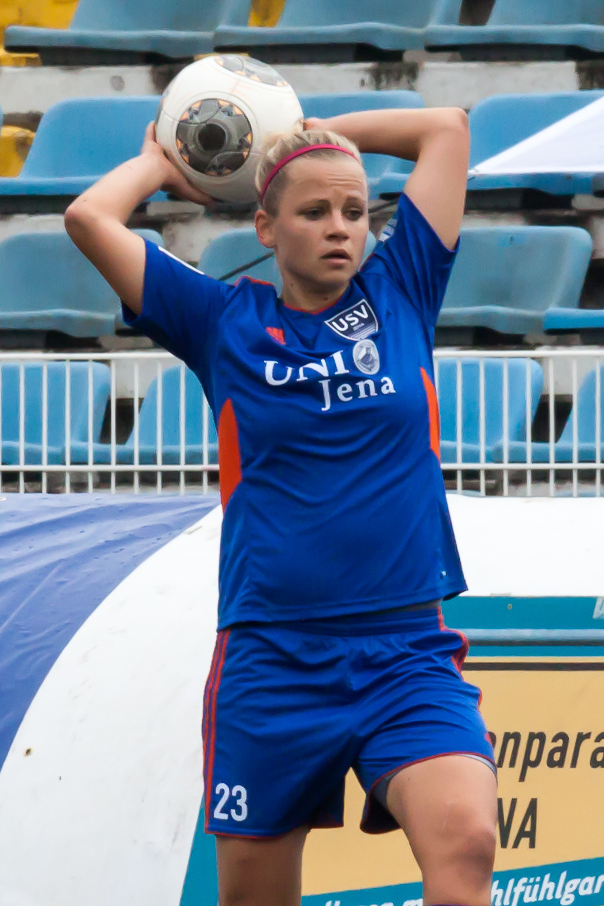 German Women Bundesliga soccer game: FF USV Jena vs. TSG 1899 Hoffenheim, 2014-10-11, at Ernst-Abbe-Sportfeld Jena.